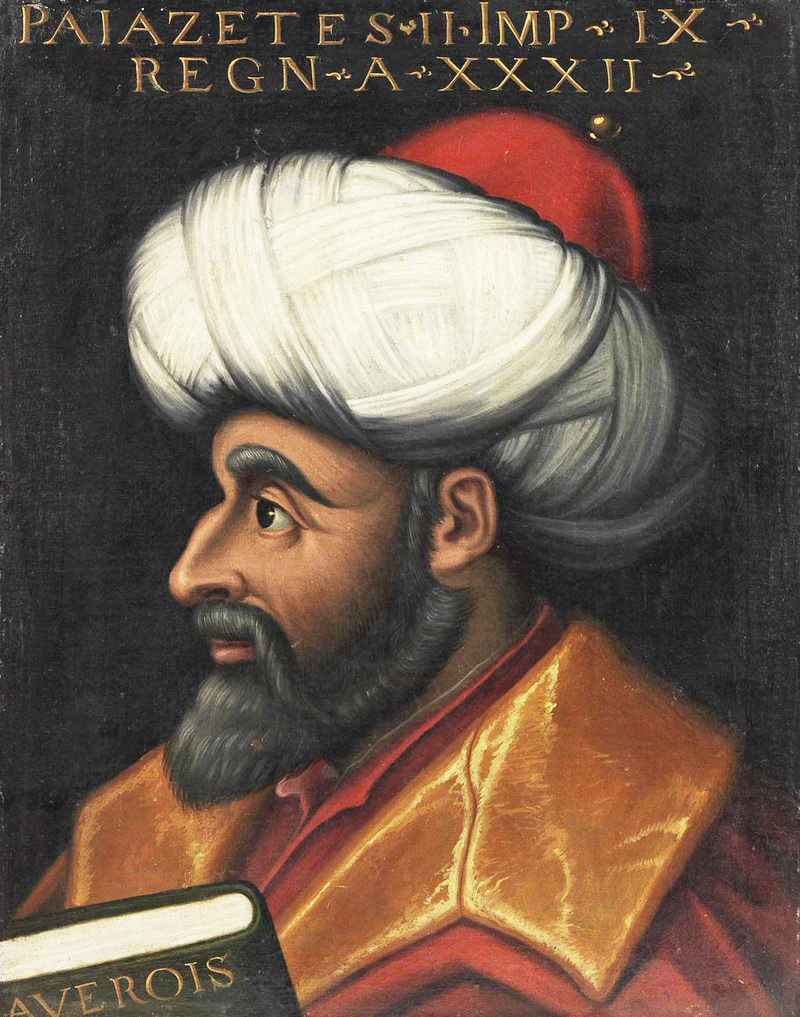 Anonymous painting of Bayezid II